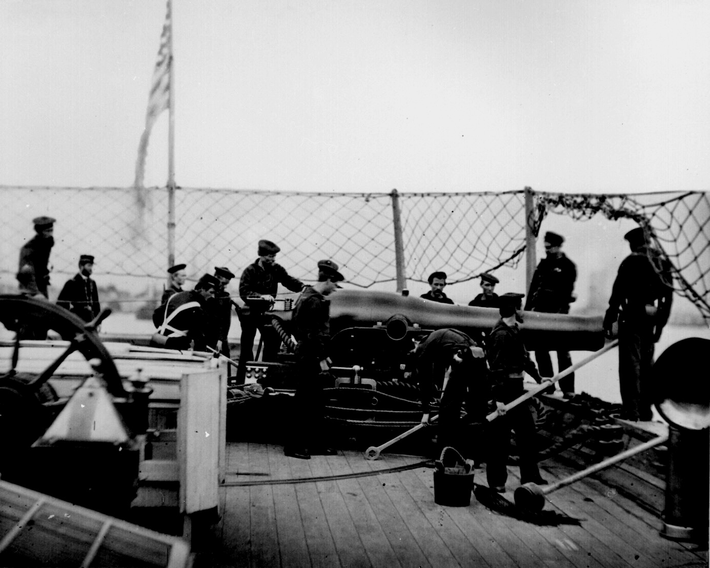 Gun crew of a 9-in Dahlgren gun at drill aboard the U.S. gunboat, probably USS Miami, 1864 (many sources incorrectly identify this ship as USS Mendota - see [1]